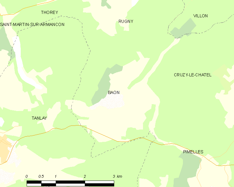 Map of French municipality Baon